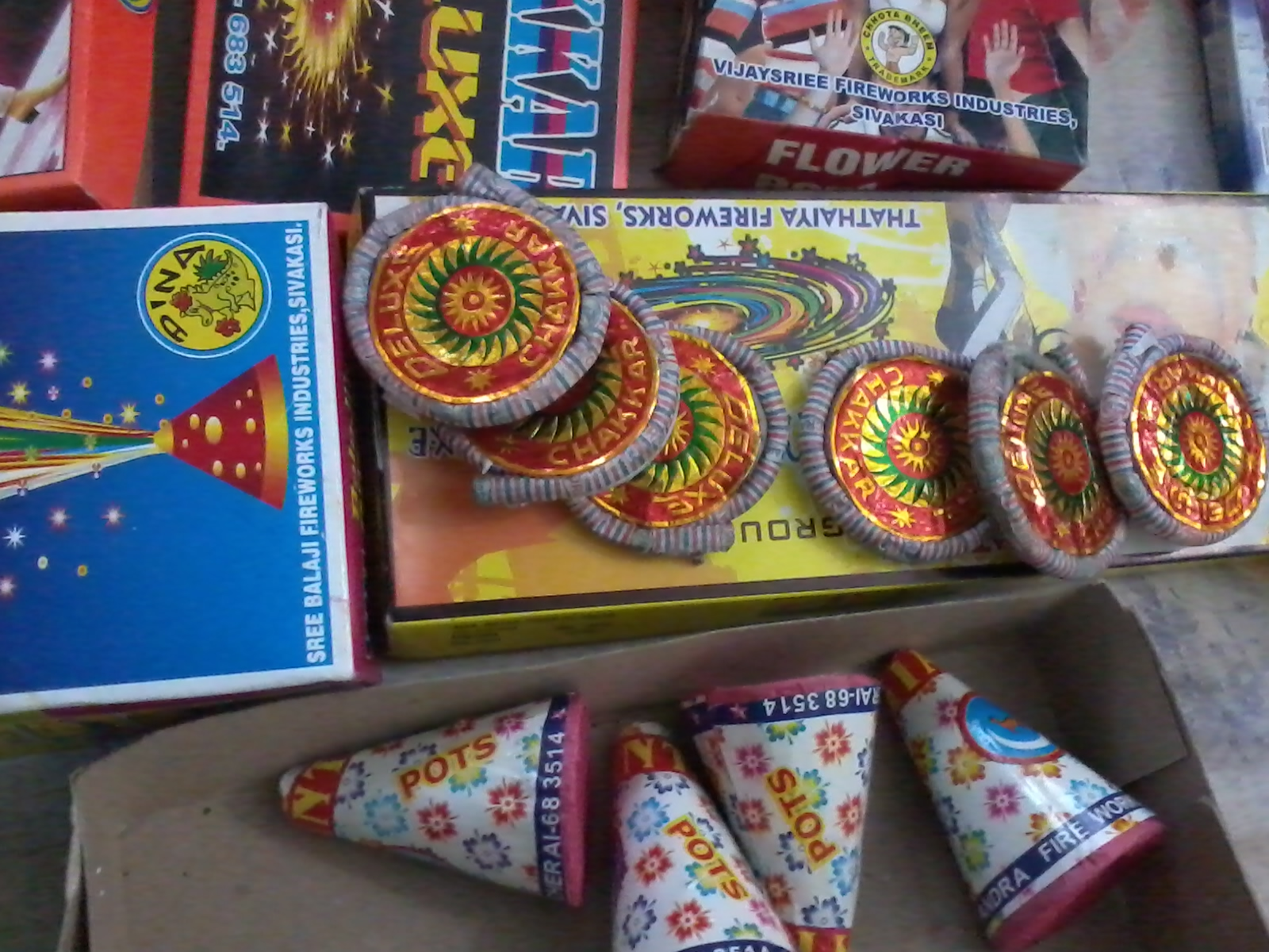 Malayalam loves Wikimedia event